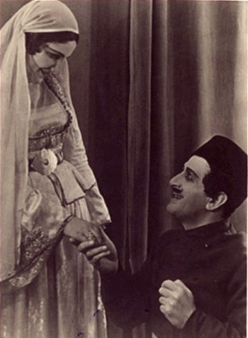 Bulbul as Asgar and Sona Mustafayeva as Gulchohra